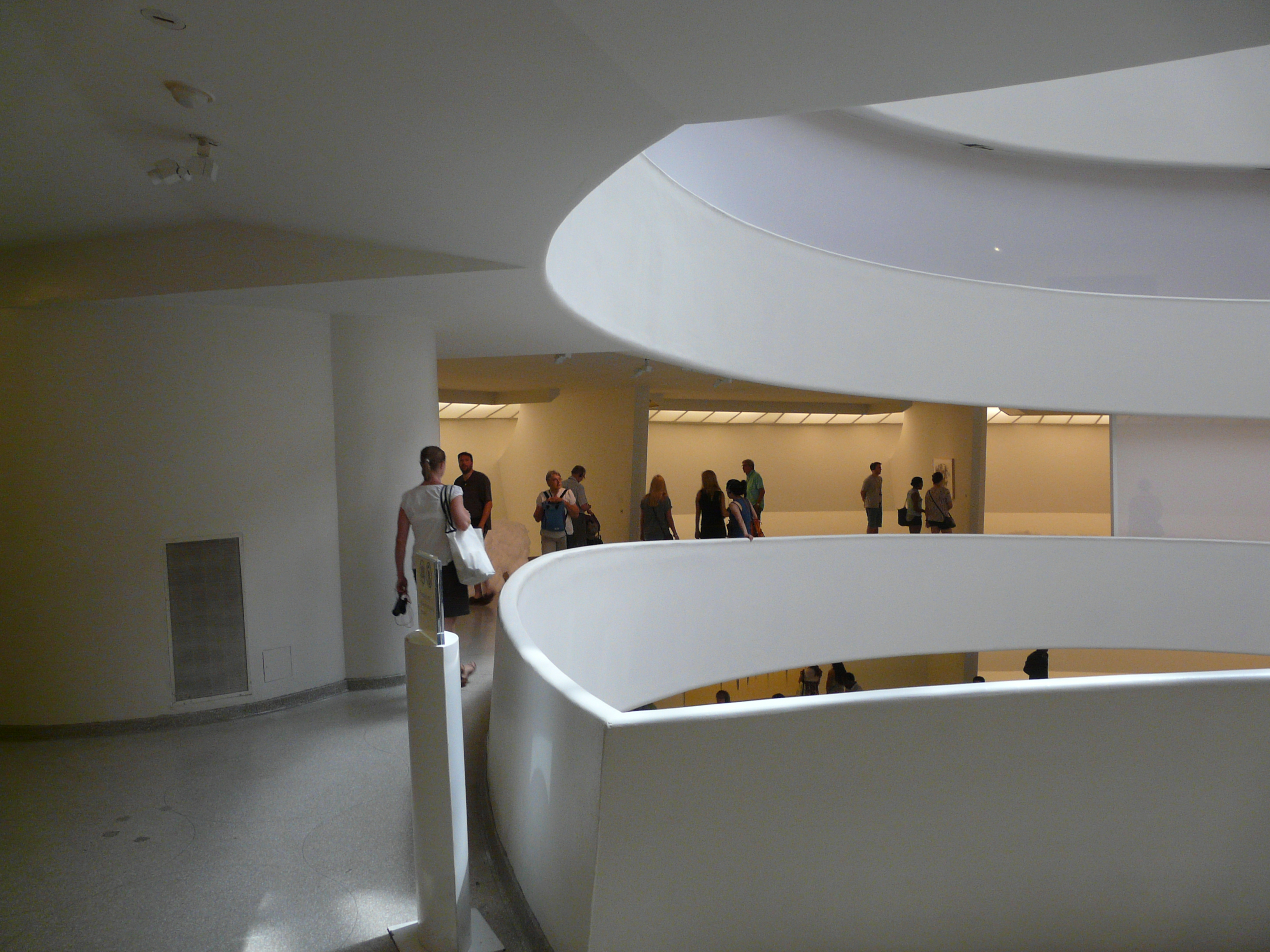 New York, summer of 2011.